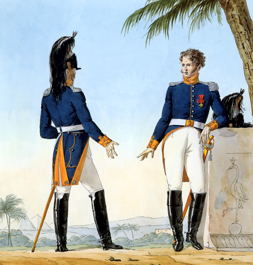 Part of a series chronicling the uniforms of Napoleon's Grande Armée.